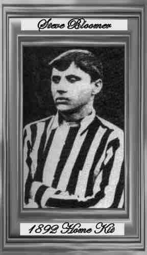 english Soccerplayer Steve Bloomer in 1892